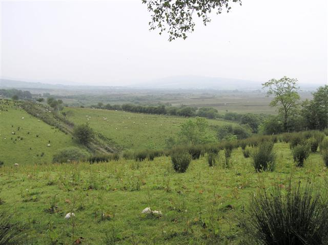 Tullagherin Townland. The day started out damp and the sun gradually came out.